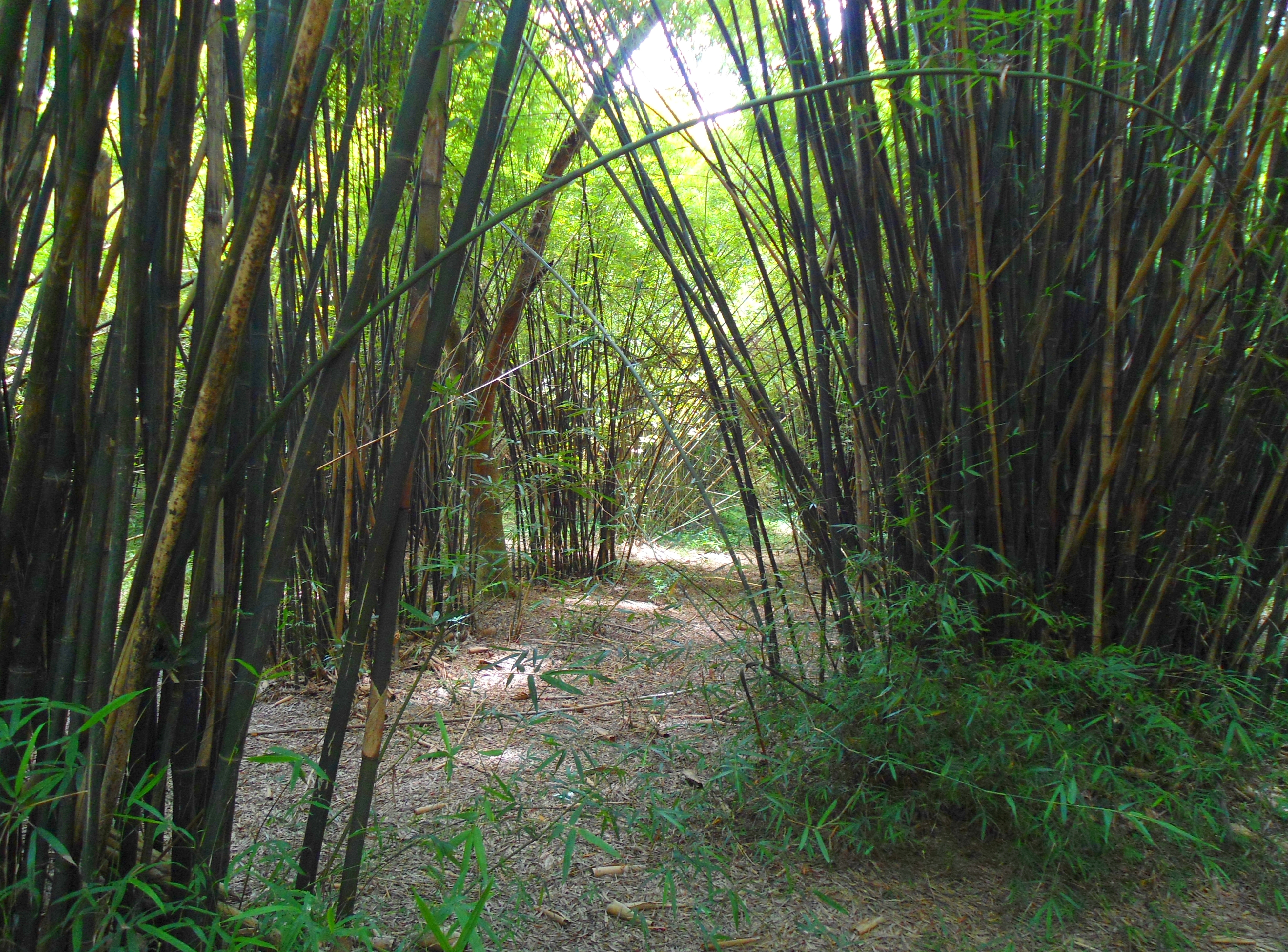 Golden Bull Mountain Ridge Park, Haikou City, Hainan Province, China.